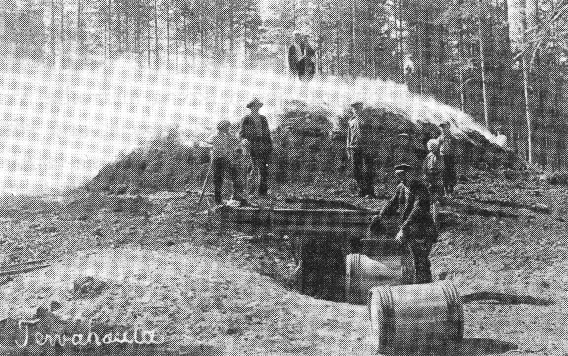 Tar-burning pit in Sammatti, Finland.